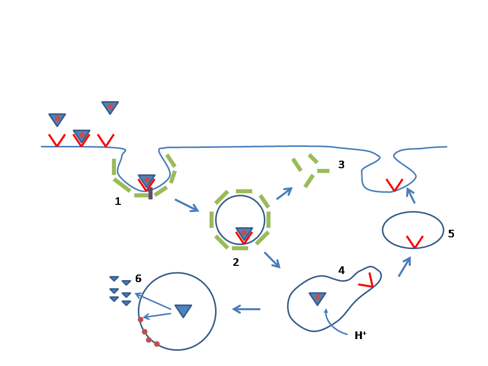 LDL Receptor Pathway. LDL particles (blue triangles) bind the LDL receptor (red) on the cell membrane. The receptors associate with clathrin (green) with the adaptor protein adaptin (purple), and cluster in clathrin-coated pits, or caveolae (1). These pinch off as clathrin-coated vesicles (2). As the clathrin dissociates from the vesicle and returns to the cell surface (3), the vesicle fuses with a late endosome (4). The low pH in the late endosome causes the dissociation of the LDL from its receptor, which returns to the cell surface via a recycling vesicle (5). The LDL is degraded in the lysosome (6) and its cholesterol is incorporated in the lysosomal membrane, while its protein component is hydrolyzed to amino acids that diffuse to the cytoplasm.